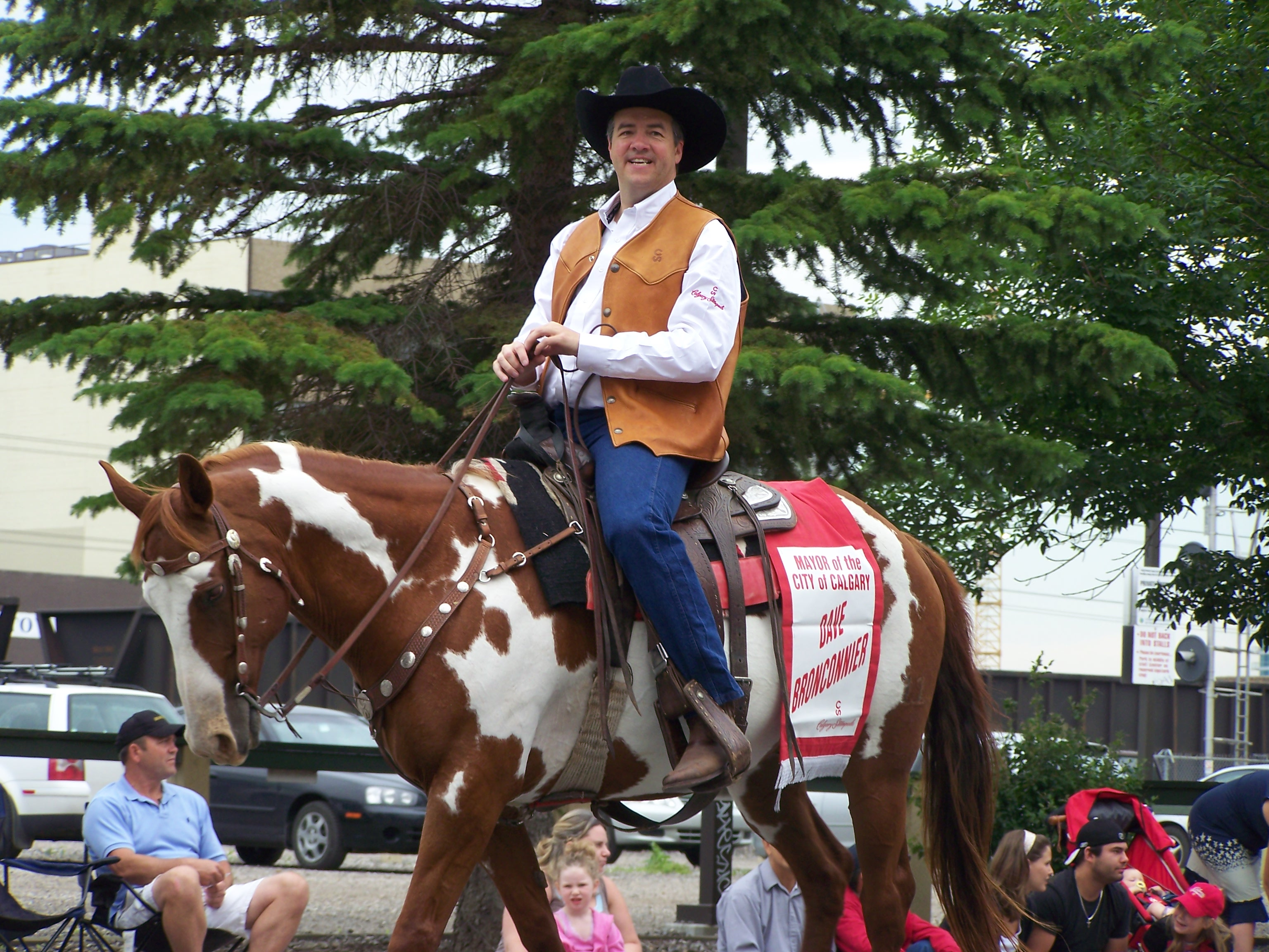 Mayor of Calgary Dave Bronconnier at the Calgary Stampede Parade on July 4, 2008.